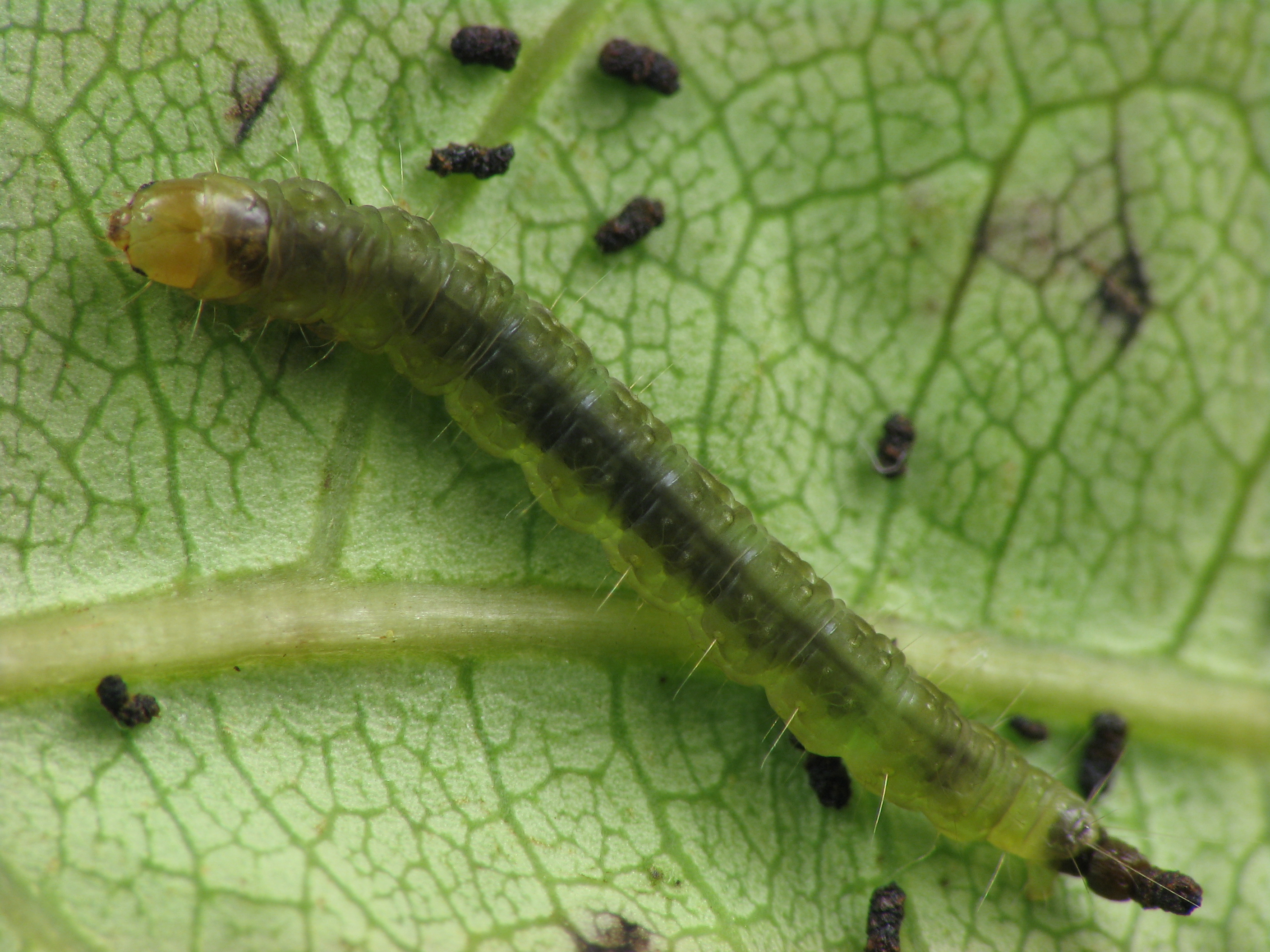 Caterpillar of leaf roller moth Eumarozia malachitana (Sculptured Moth - Hodges#2749). Size: 10-12 mm. Rancocas Nature Center NJAS, Burlington County, New Jersey, USA.